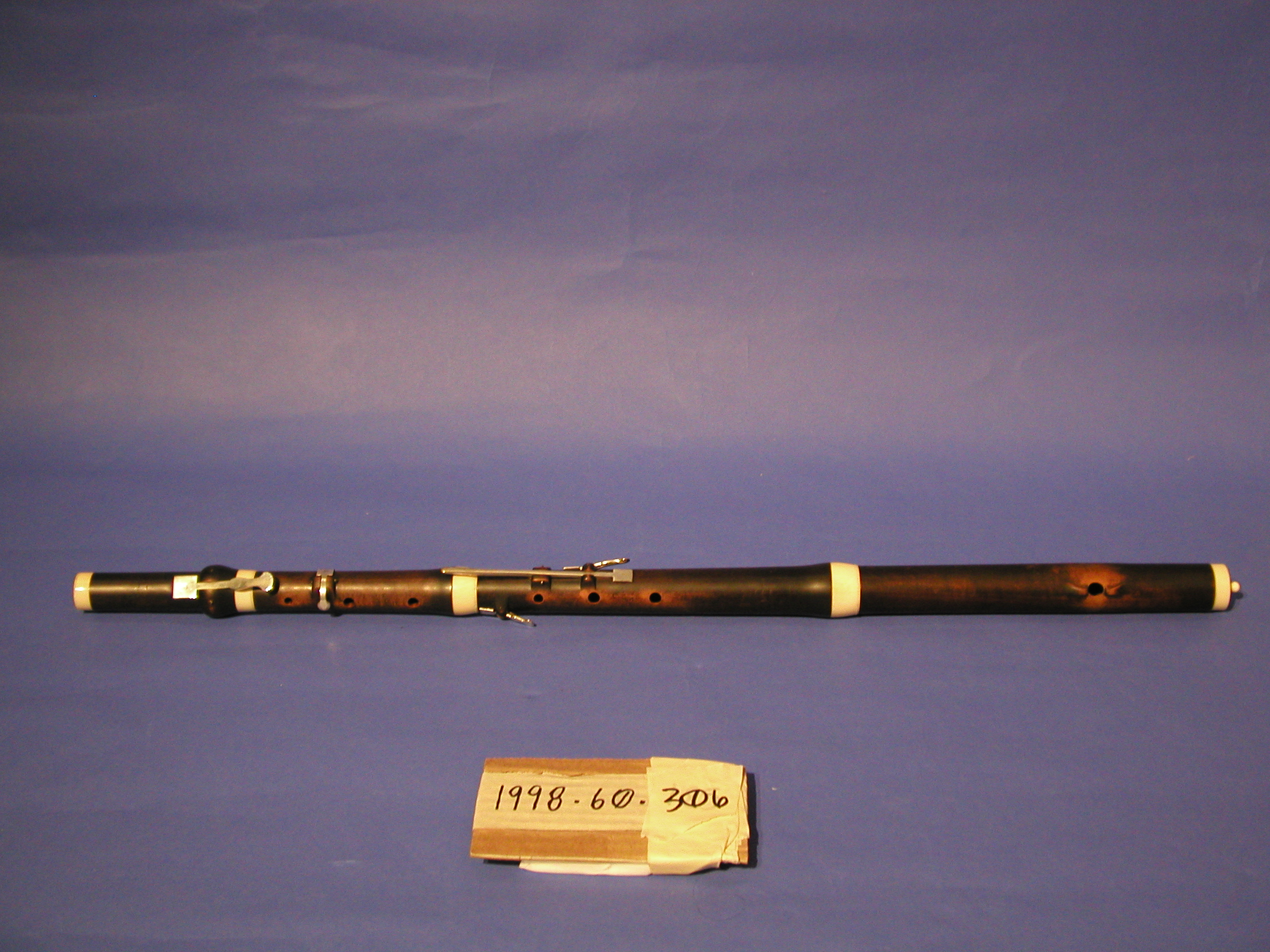 Flute, in A (flute d'amour), stained boxwood, five silver keys, with square covers stamped with crown, four ivory ferrules, six open holes, unusual lip rest (raised wings) beside embouchere, one ivory cap and stopper 1 flute d’amour in A Monzani, London, England, probably 1813 stained boxwood, ivory ferrules, five silver keys, overall length 737 mm stamped ‘(crown) - MONZANI - NO. 3 OLD BOND ST. - LONDON - 559’ 1998.60.306 Castle 457 The flute d’amour flute d’amore, like the oboe and clarinet d’amour was slightly larger, and deeper and sweeter sounding than its soprano counterpart. This instrument is a very fine example, made by Tebaldo Monzani (1762 - 1839) who worked in London during the first quarter of the 19th century. This flute has raised portions each side of the embouchure hole to aid in directing the breath correctly across the necessarily larger hole. In common with most Monzani flutes each key is stamped with a small crown, hinting at royal favour.